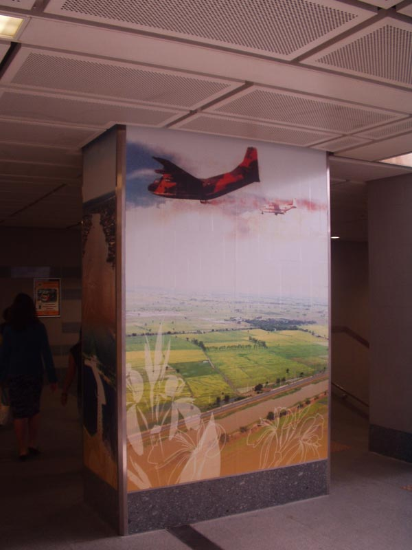 painting with a visualization of the "royal rain" in Thailand at entry of Asok-Metro Station Bangkok